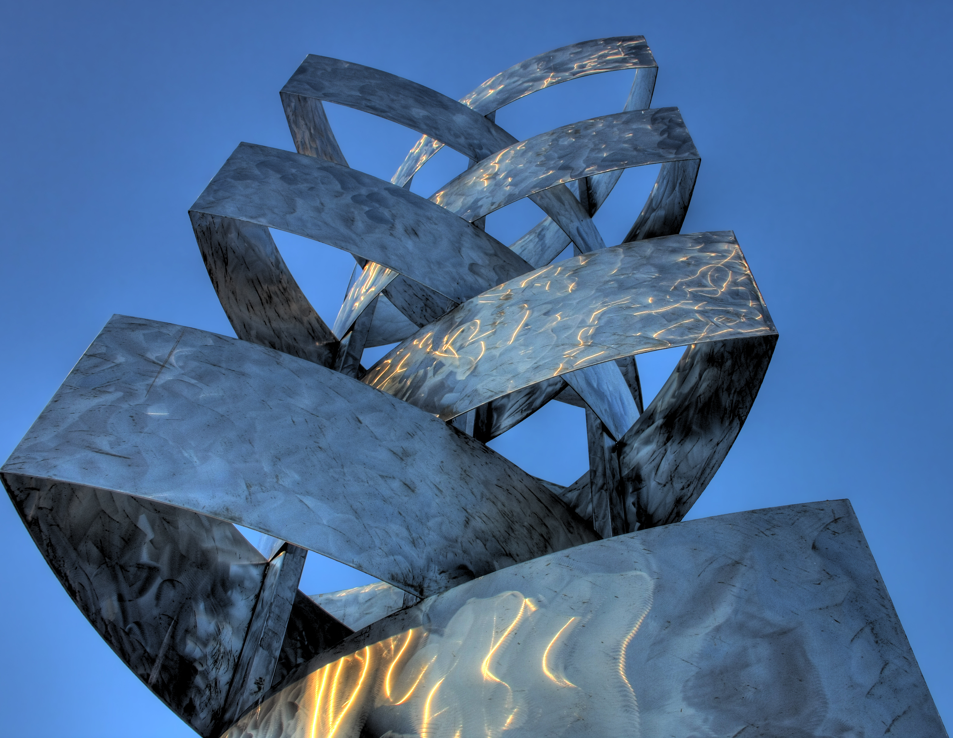 Stainless steel sculpture Begynnelse (Beginning) in Eslöv, Sweden, by Alexius Huber